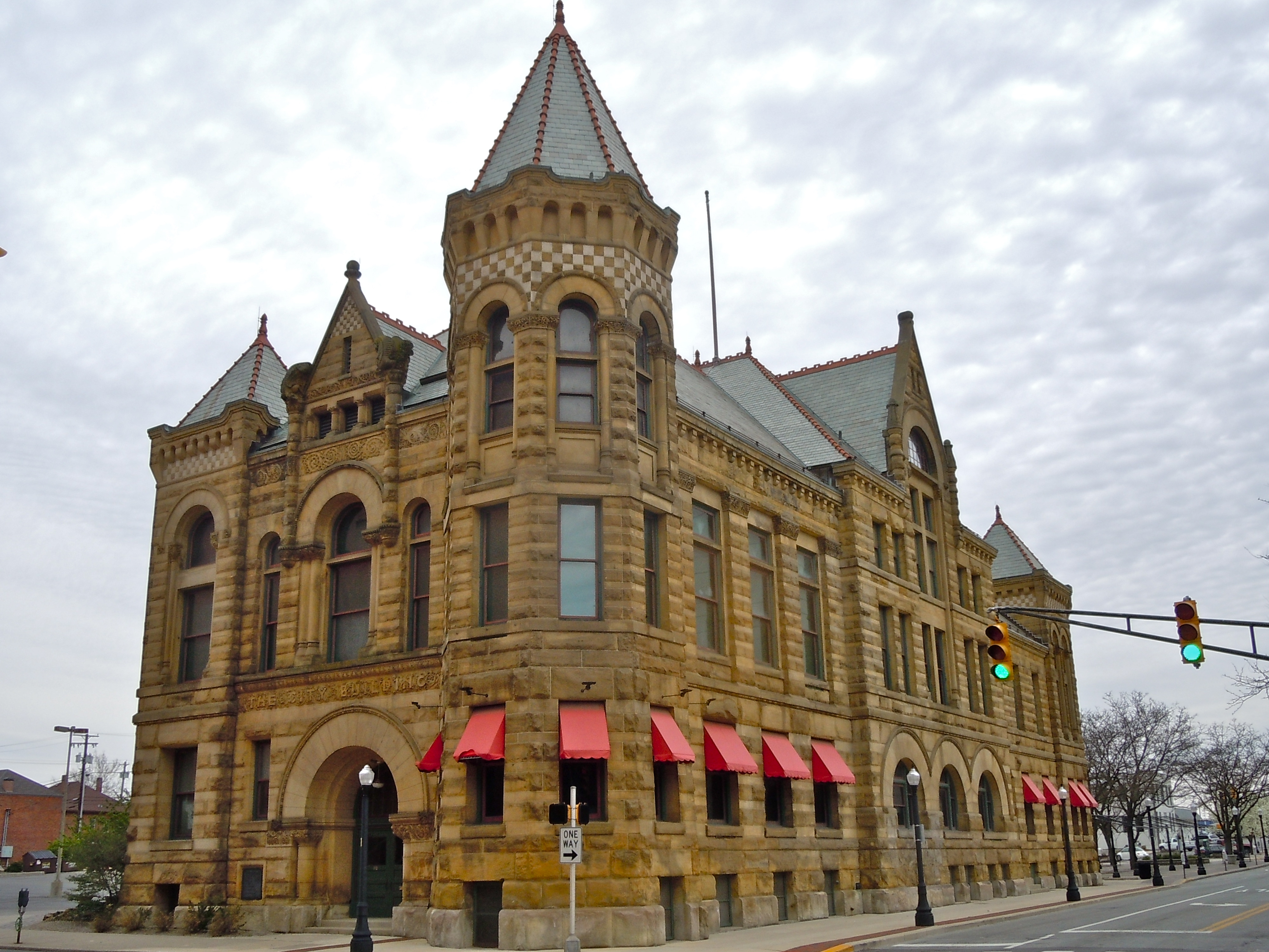 Former Fort Wayne City Hall, now History Center, on the NRHP since June 4, 1973. At 308 E. Berry St. near the Allen County Courthouse, Fort Wayne, Indiana. Built 1892 according to old bronze plaque near door.